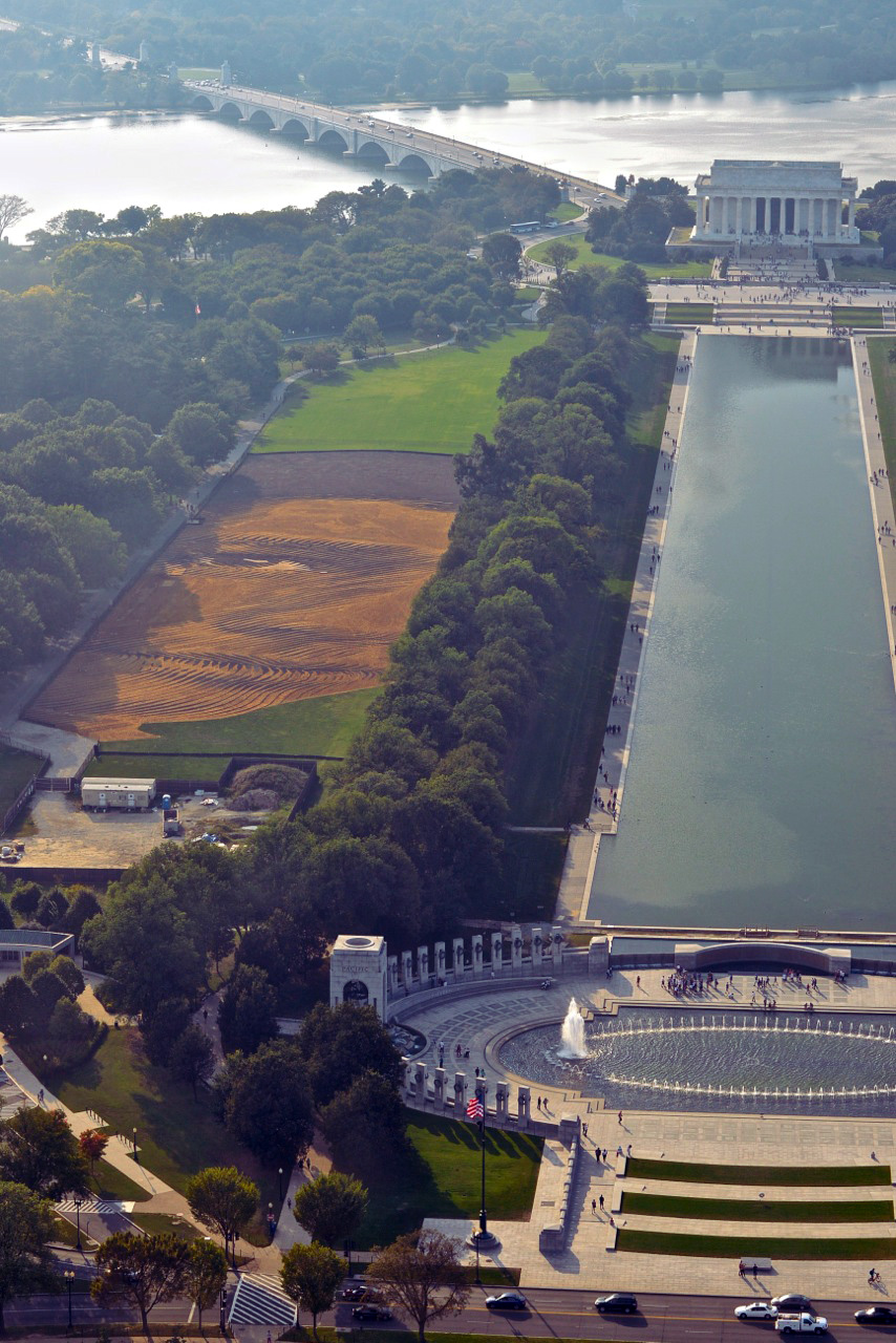 View of the composite portrait from the viewing deck of the Washington Monument in Washington DC.